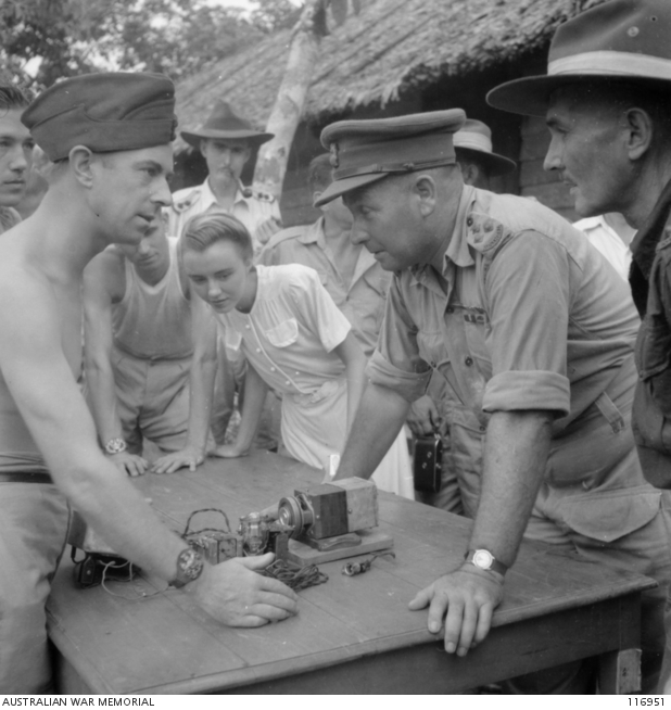 Australian War Memorial Caption: Kuching, Sarawak. 1945-09-10 [sic - should read 1945-09-11]. WO L.T.A. Beckett, Radio Instrument and Maintenance Unit, Royal Air Force Far East, showing the wireless set which he made while a Prisoner of War of the Japanese to Brig T. C. Eastick, Commanding Kuching Force and Lt-Col A. W. Walsh, Commanding Officer, 2/10 Aust Field Regiment. This set was sufficiently powerful to receive the news broadcasts of the Aust Broadcasting Commission and the British Broadcasting Corporation.